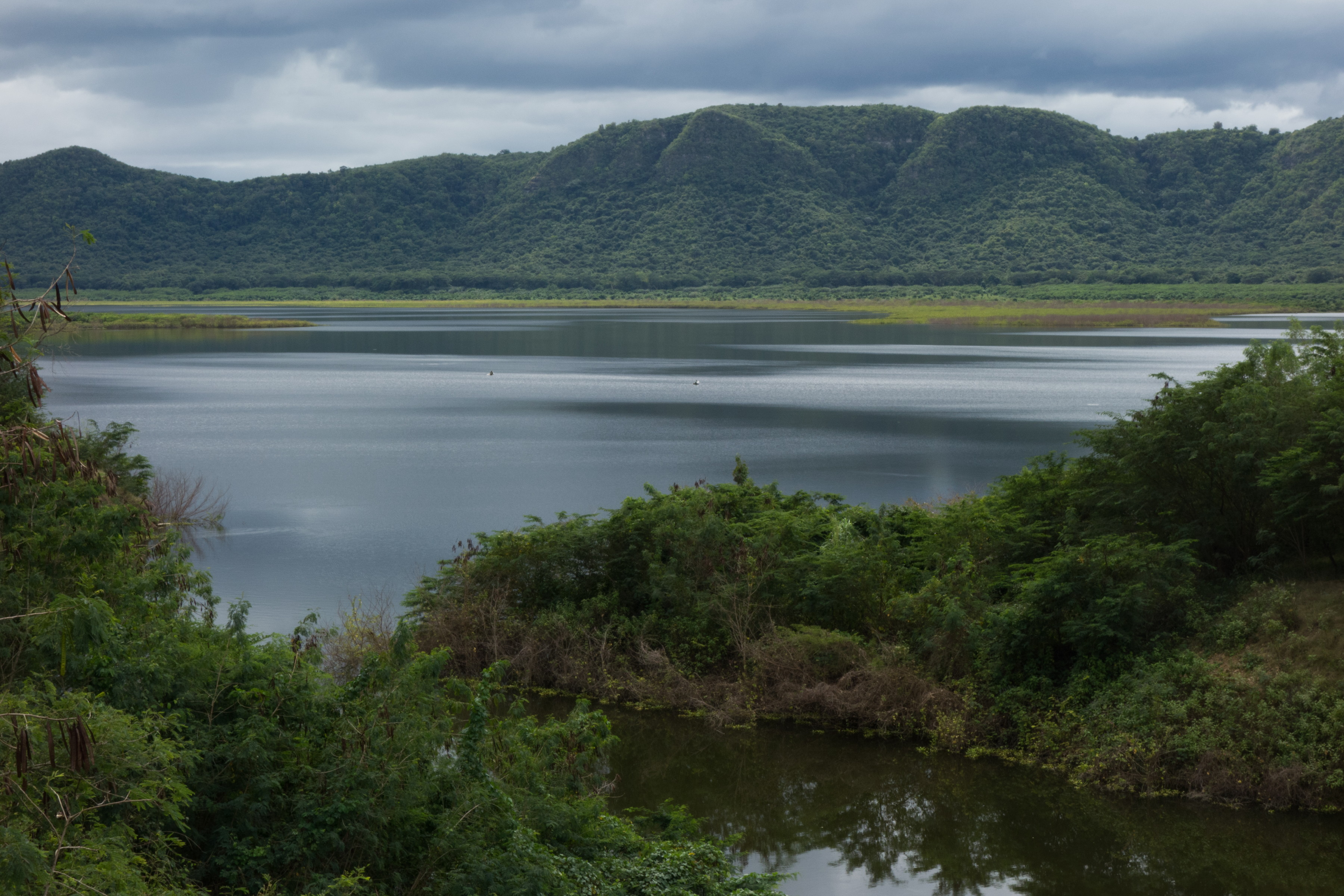 Barrier lake La Yaya, Guantánamo province, Cuba